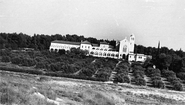 Latrun Monastry 1948